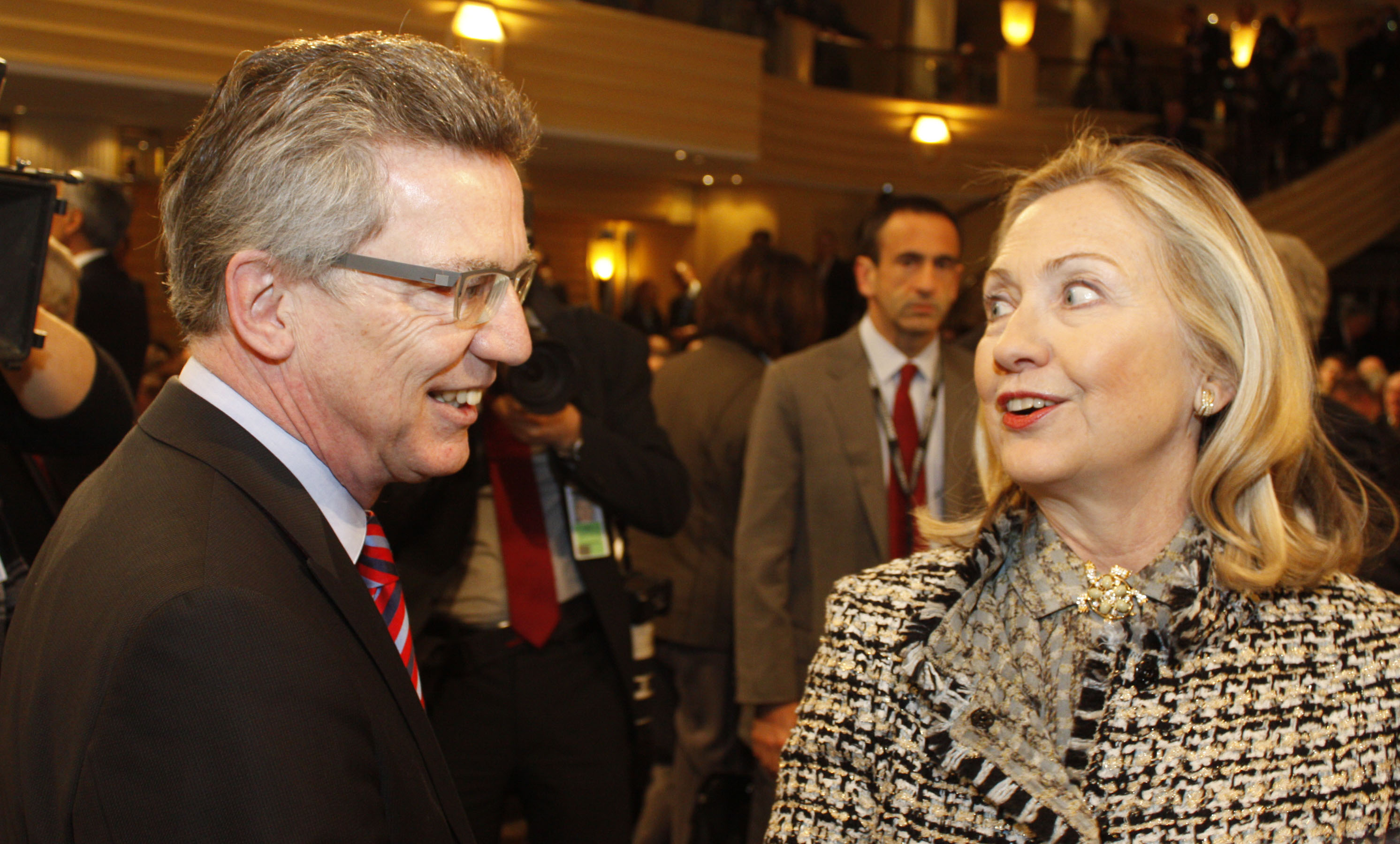 48th Munich Security Conference 2012: Hillary Clinton (ri), Secretary of State, USA, and Dr. Thomas de Maizière (le), Federal Minister of Defense, Germany.